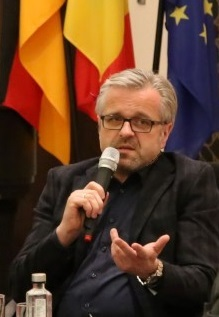 Zalewski w Ambasadzie Rumunii w Berlinie, fot. Ines Huber, marzec2019